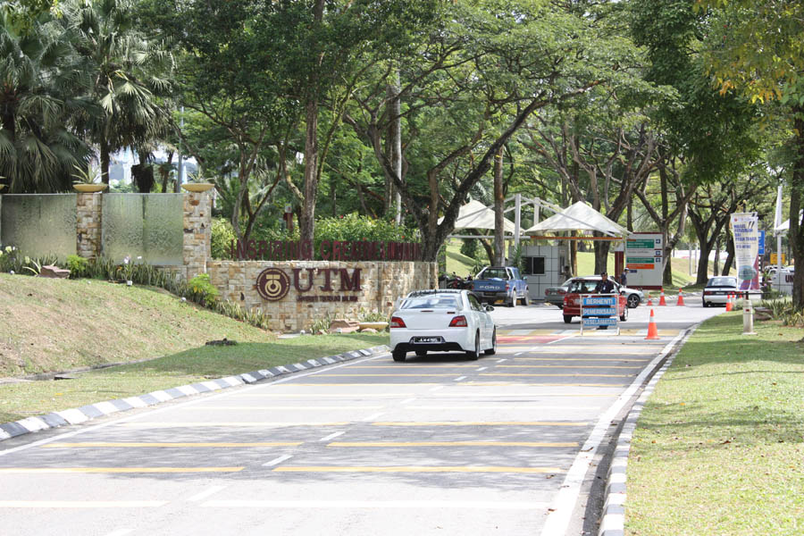 Universiti Teknologi Malaysia-maingate